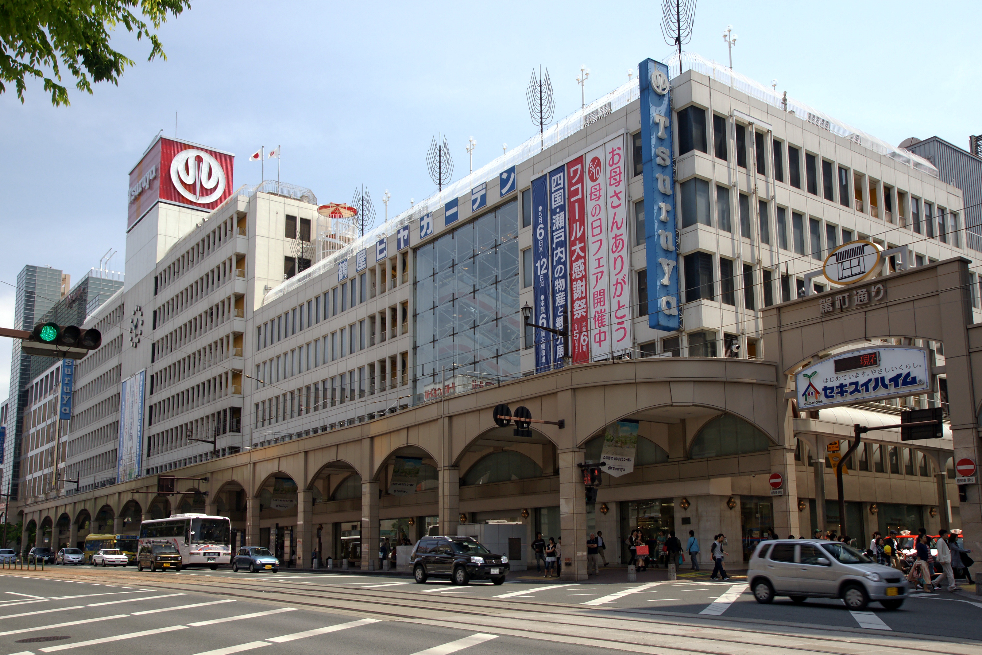 Tsuruya Department Store, Kumamoto, Kumamoto prefecture, Japan